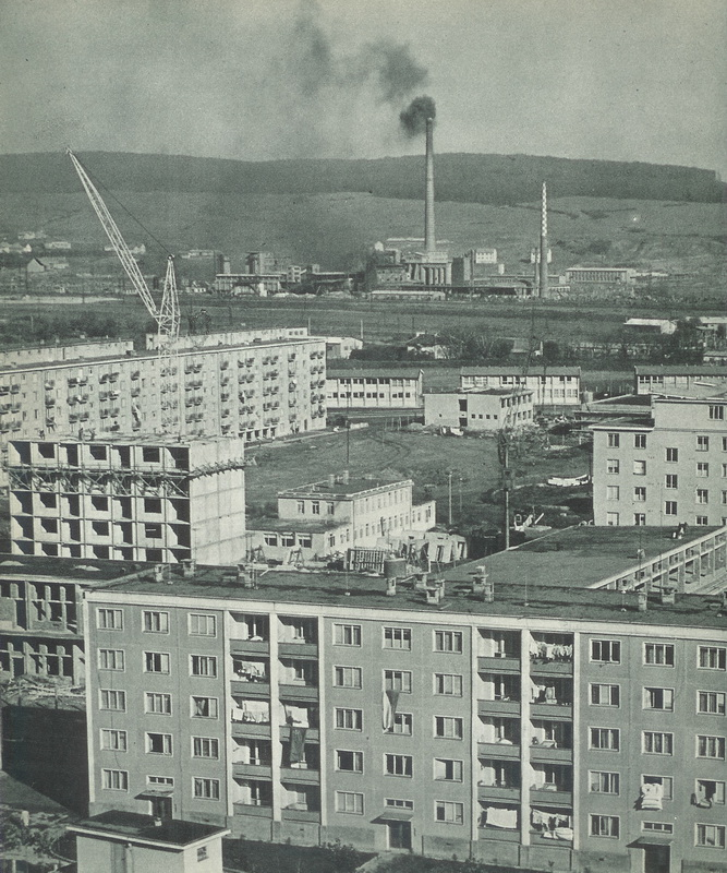 Housing Estate Mier, Košice